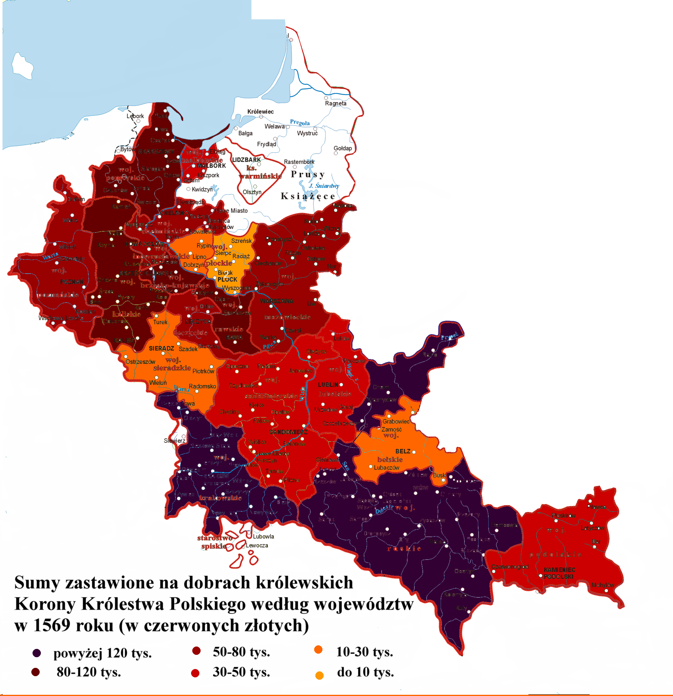 The sum pledged at the royal estates in Crown of the Polish Kingdom by province in 1569 (in red zlotys)